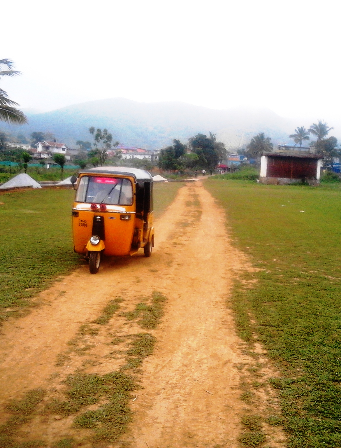 Pandallur, Nilgris, India.